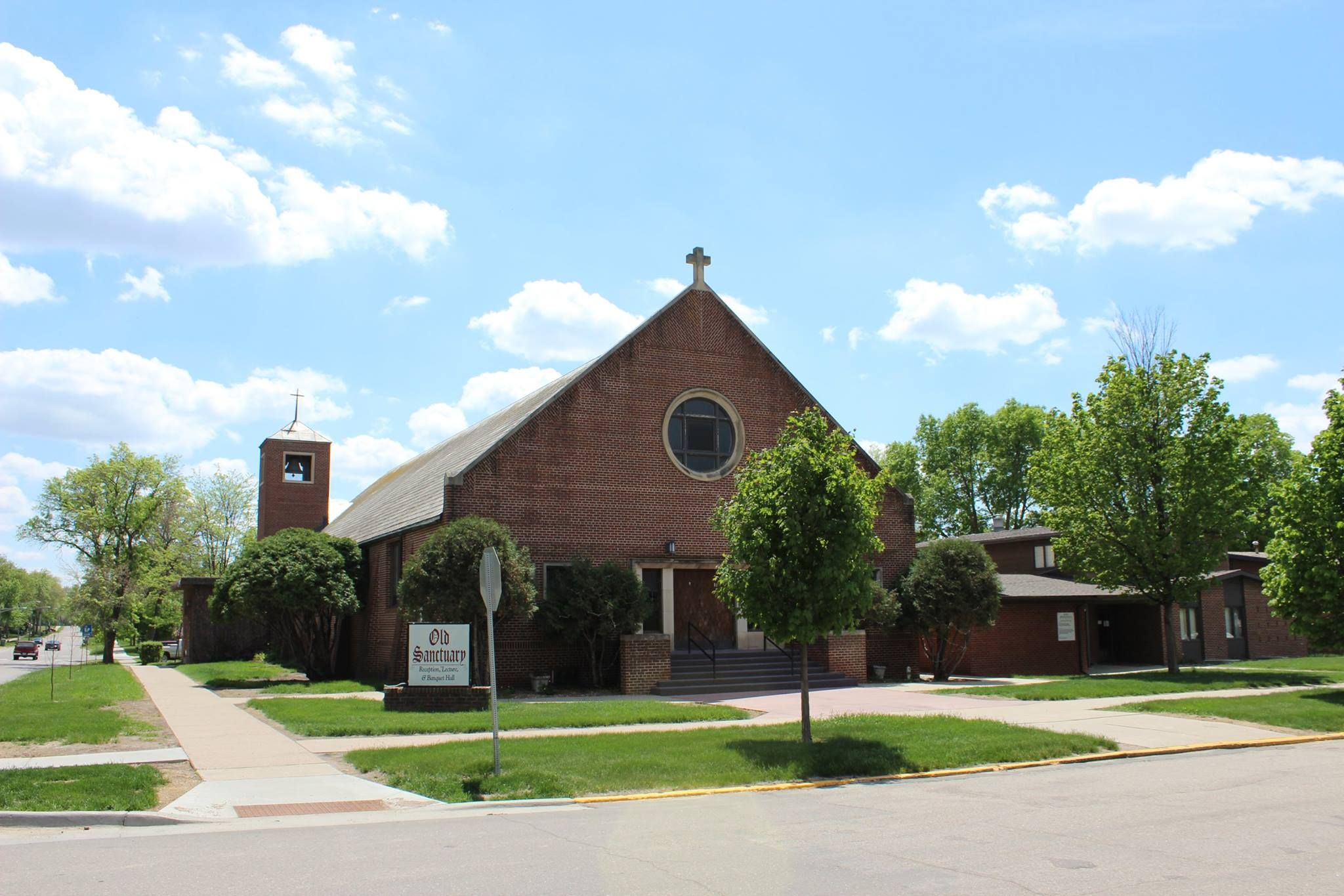 The Institute of Lutheran Theology campus building.